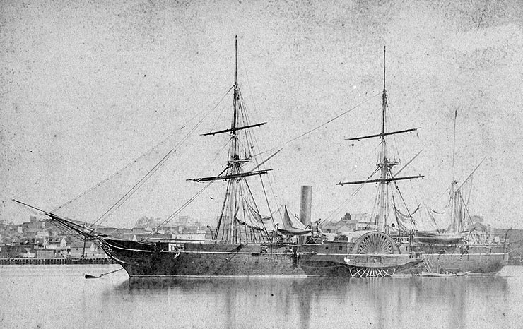 USS Saranac in port. Photo # NH 43997.